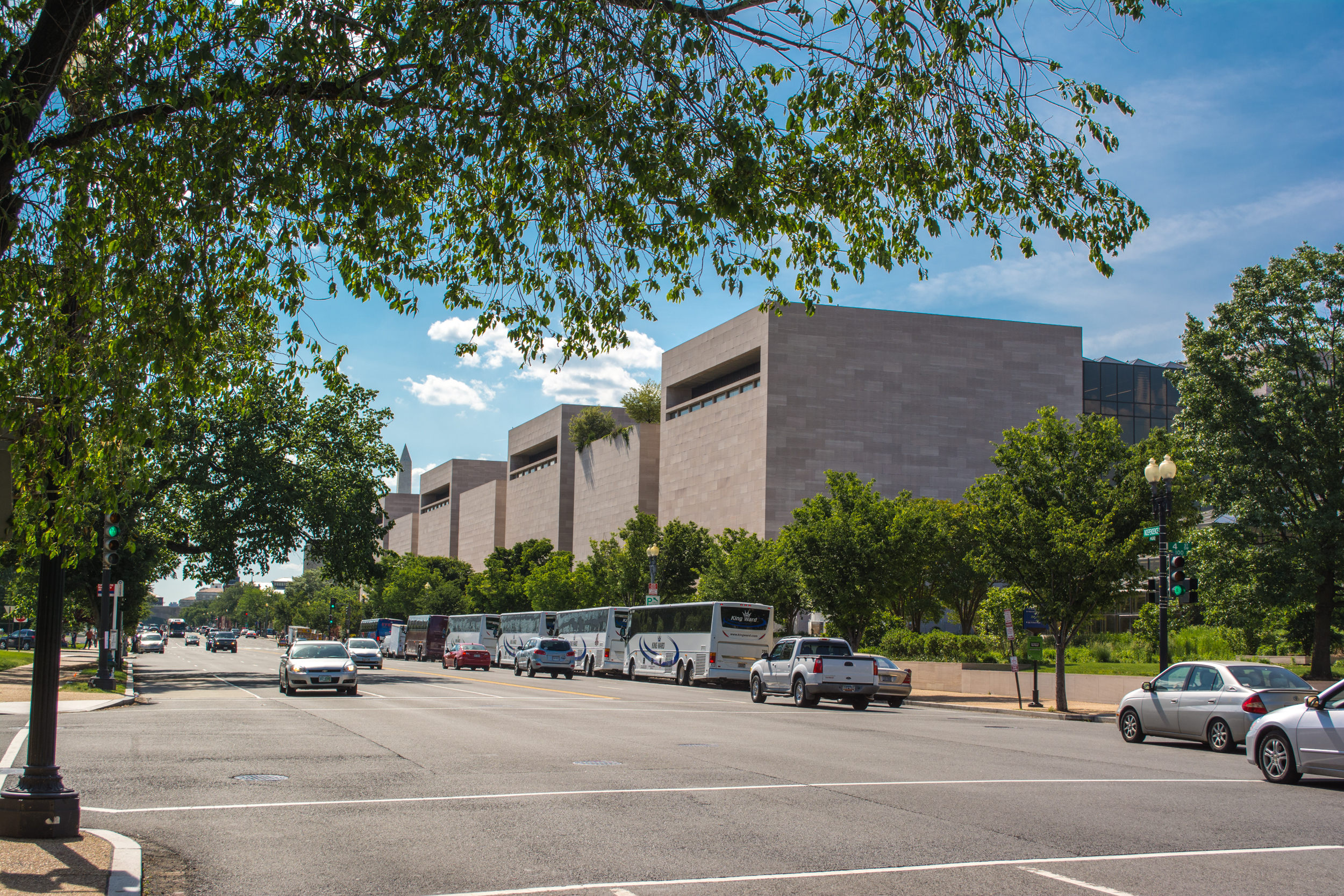 Looking northwest at Independence Avenue SW from 4th Street SW in Washington, D.C., in the United States. The Smithsonian National Air & Space Museum is on the right.